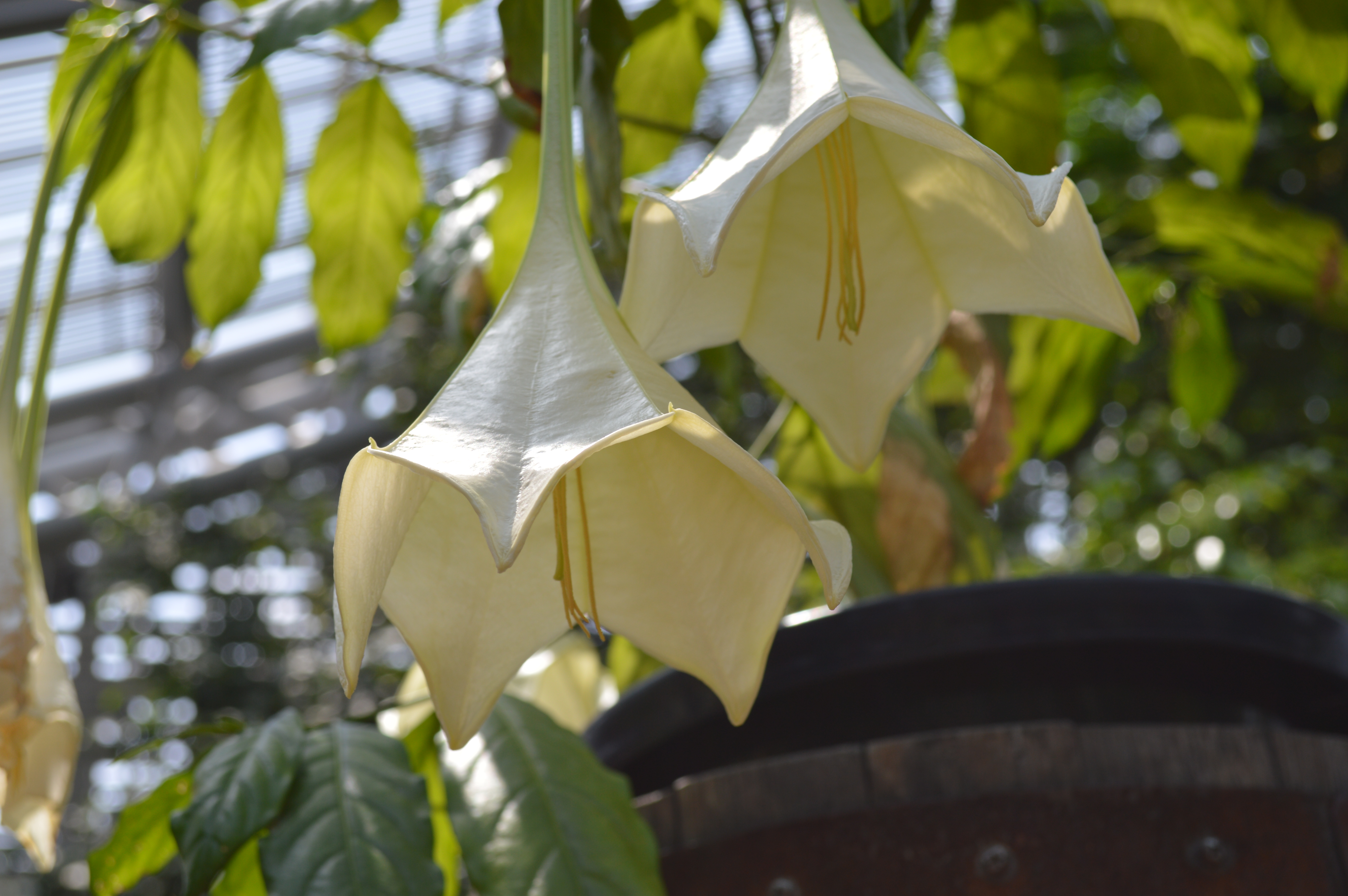 O. pulchra, Kyoto Botanical Garden, Kyoto, Japan, 2014-05-30